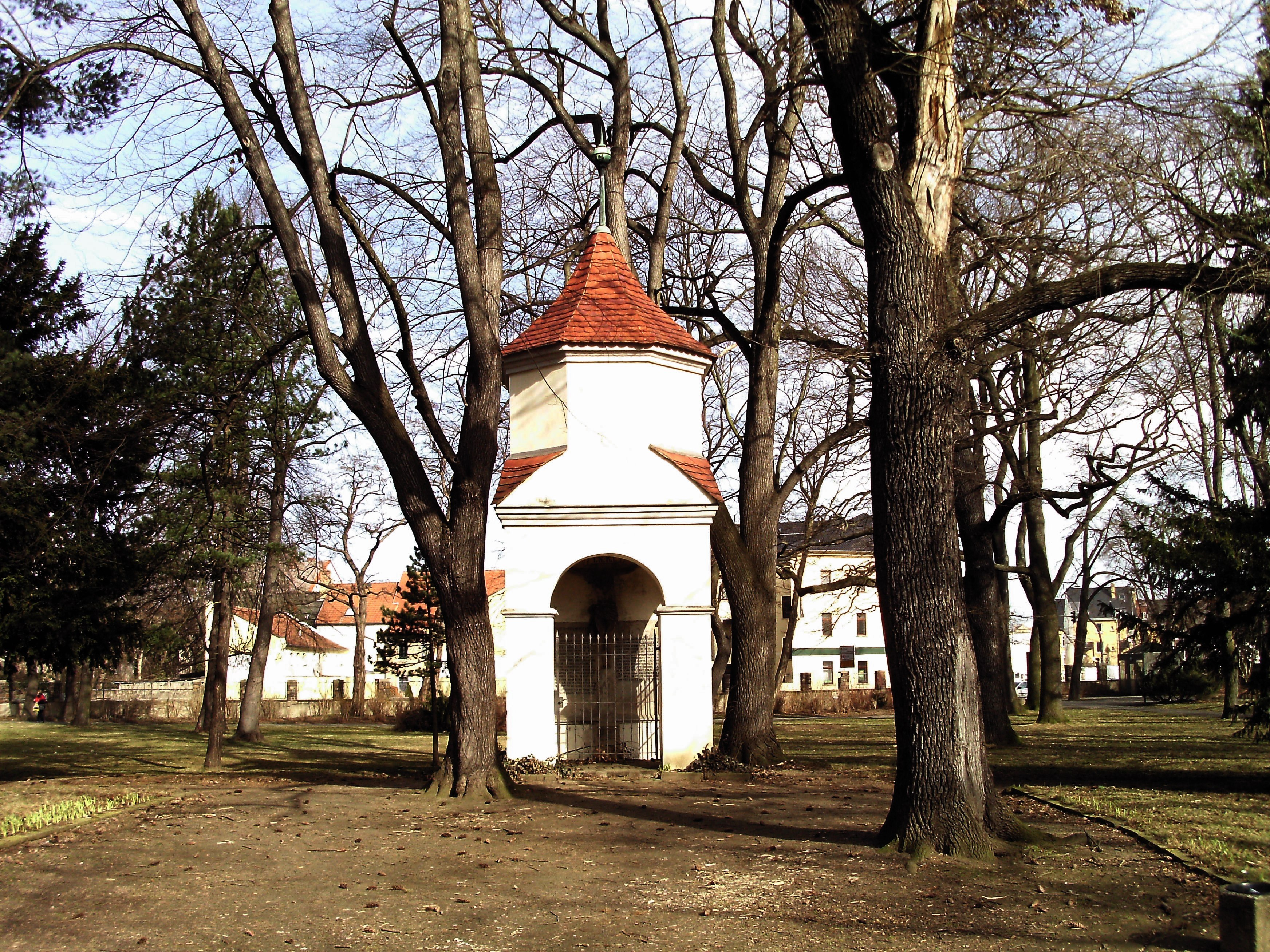 Plague memorial in the park at the old cemetery in Wurzen (Leipzig district, Saxony)